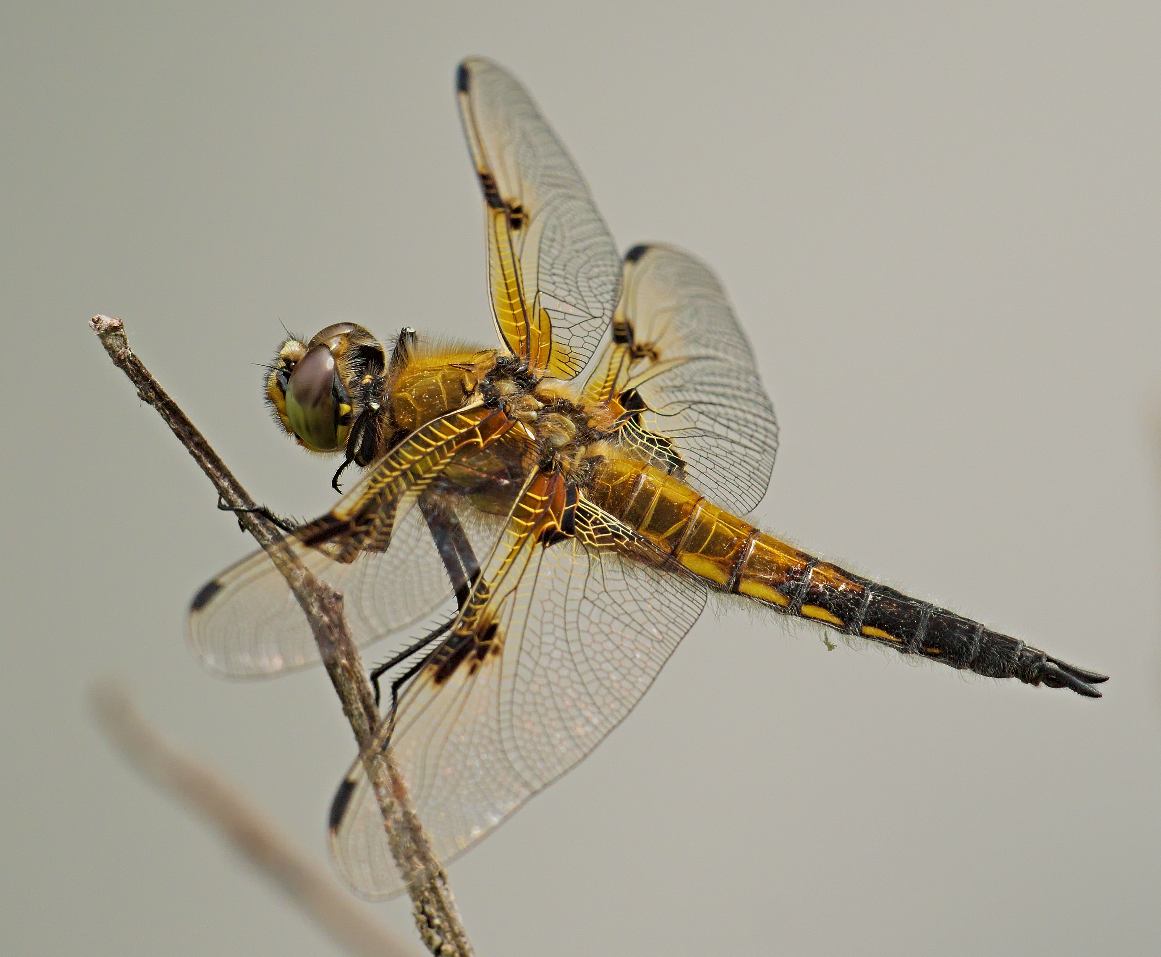 Four-spotted chaser - Libellula quadrimaculata, male. Taken by the fishing ponds in Rimbach, Hesse, Germany.